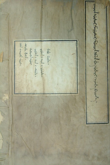 Complete Genealogies of the Clans and Families of the Manchu Eight Banners (Jakūn Gūsai Manjusai Mukūn Hala be Uheri Ejehe Bithe) cover